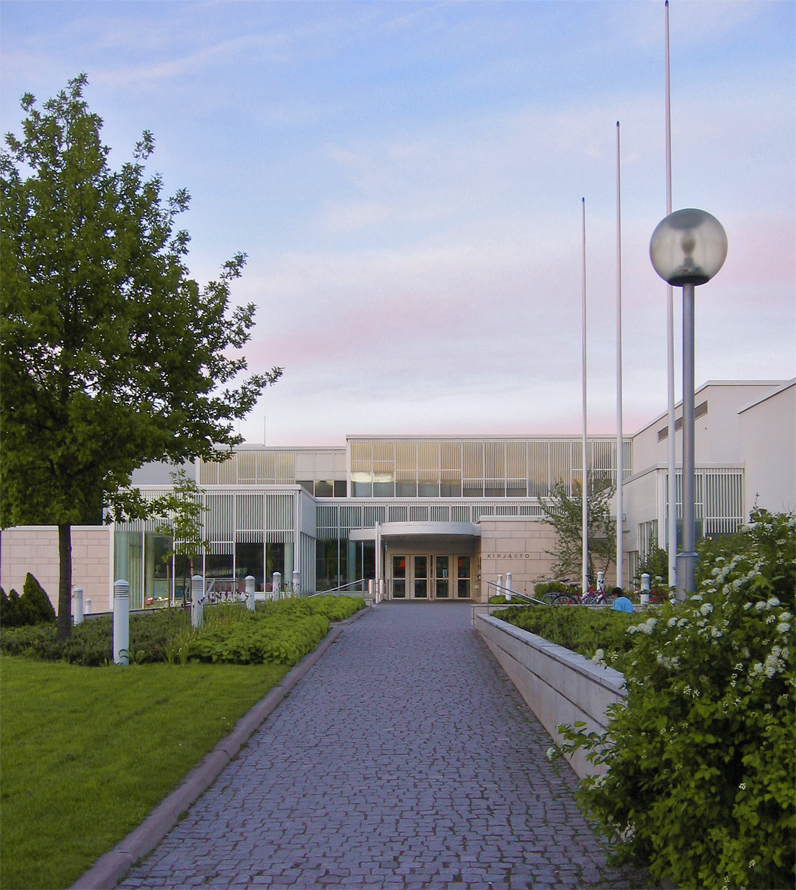 Lahti central library